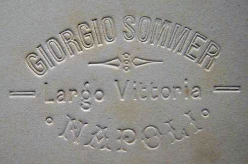 Giorgio Sommer (1834-1914) - Blind stamp used on his photographs.